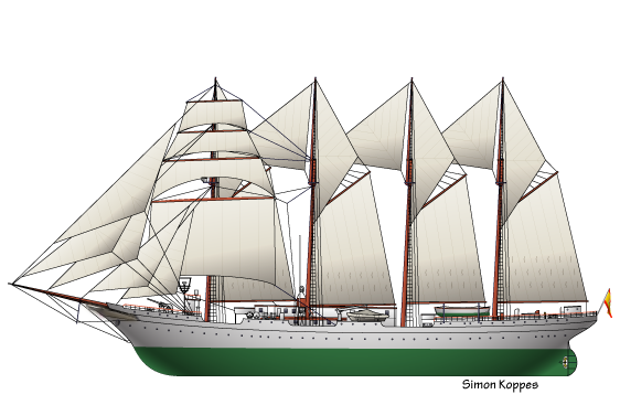 Drawing of the Spanish sailing ship Juan Sebastián Elcano